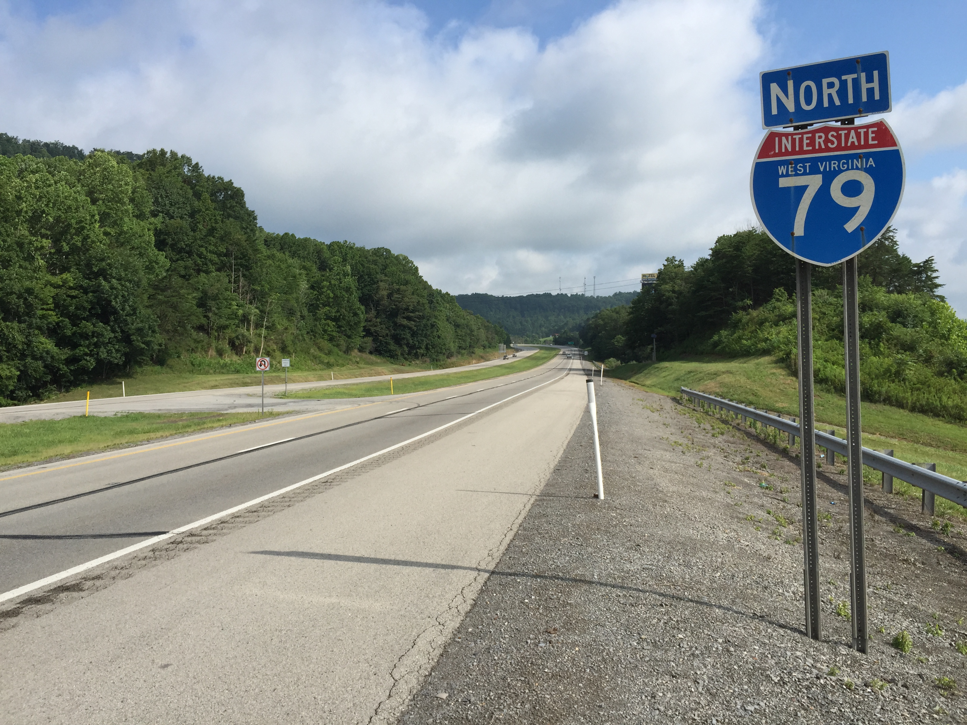 View north along Interstate 79 (Jennings Randolph Highway) just north of Exit 67 (U.S. Route 19, West Virginia State Route 15, Flatwoods) in Flatwoods, Braxton County, West Virginia